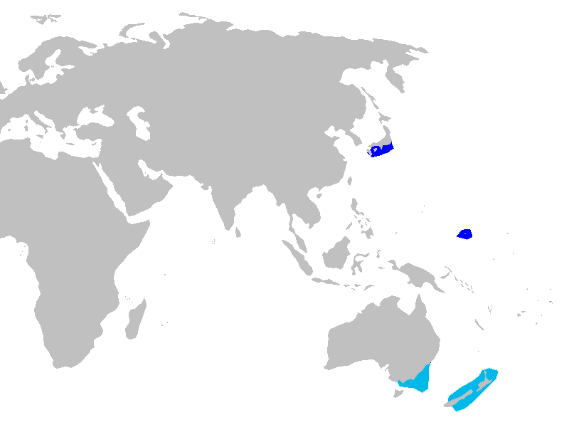 Distribution map for Cirrhigaleus barbifer (blue) and C. australis (cyan)